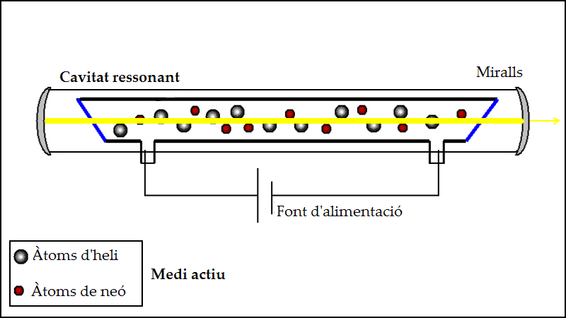 Schematic of a helium-neon laser - Catalan labels